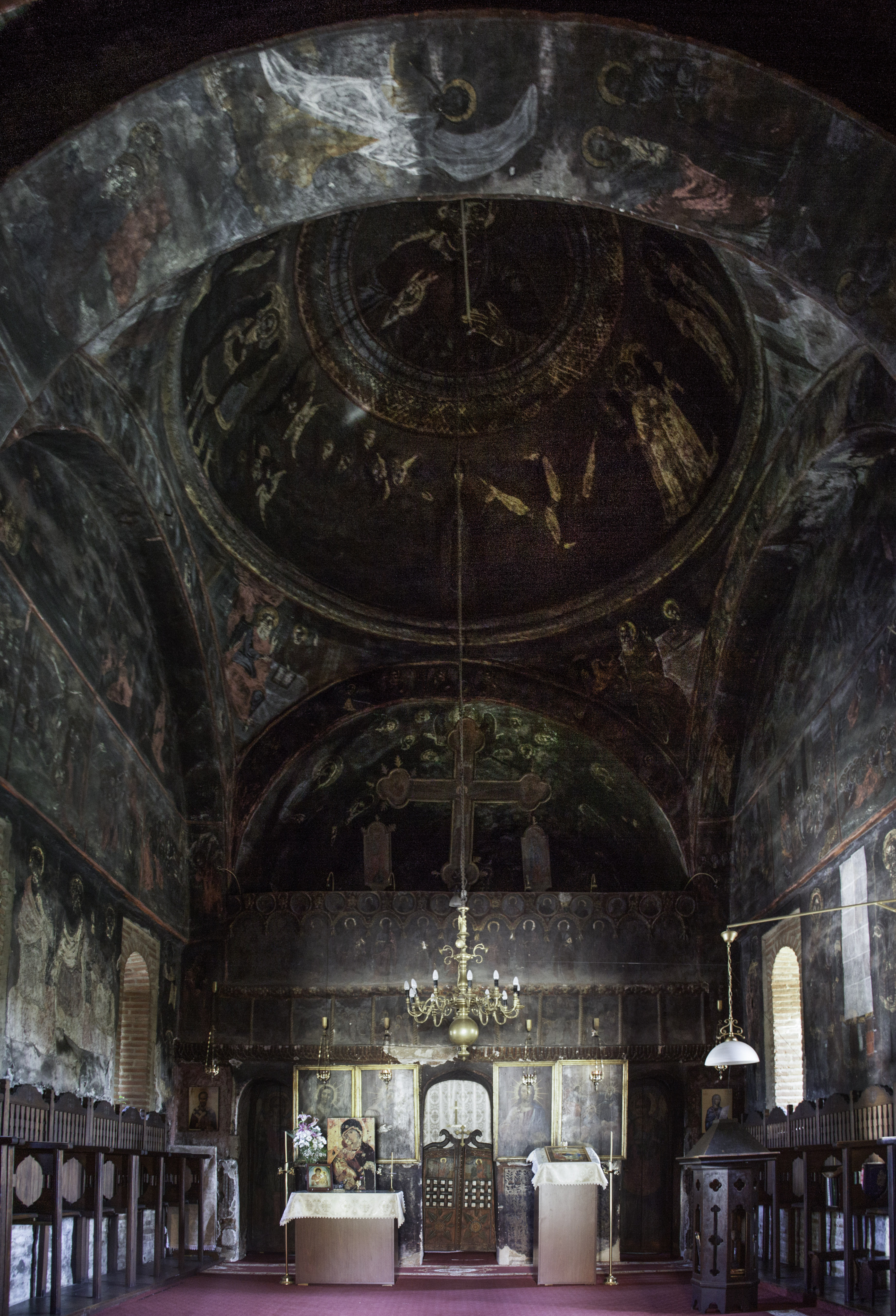 Strehaia Monastery, Mehedinți county, Romania: inside the vaulted nave.